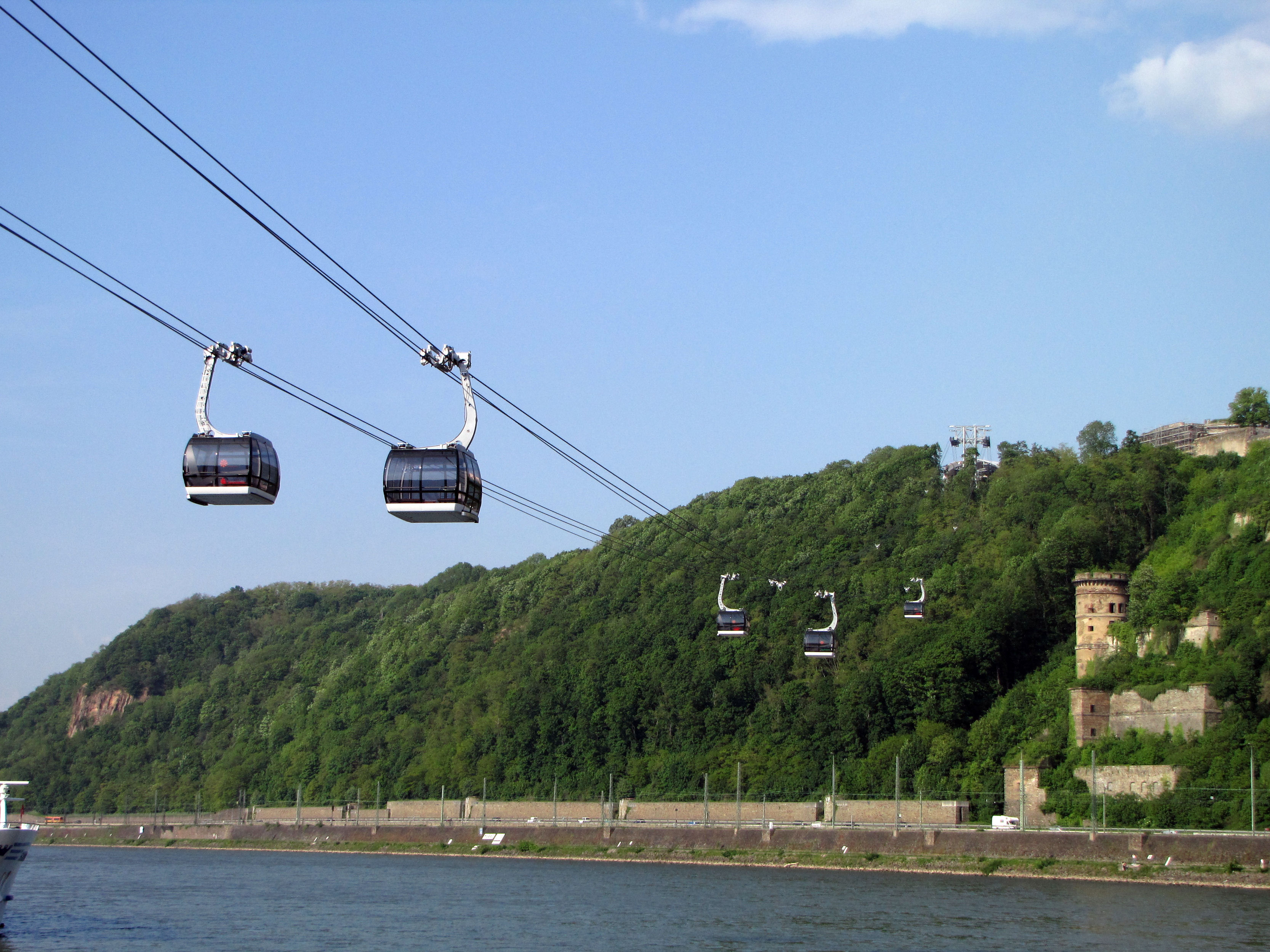 The National Garden Show 2011 in Koblenz